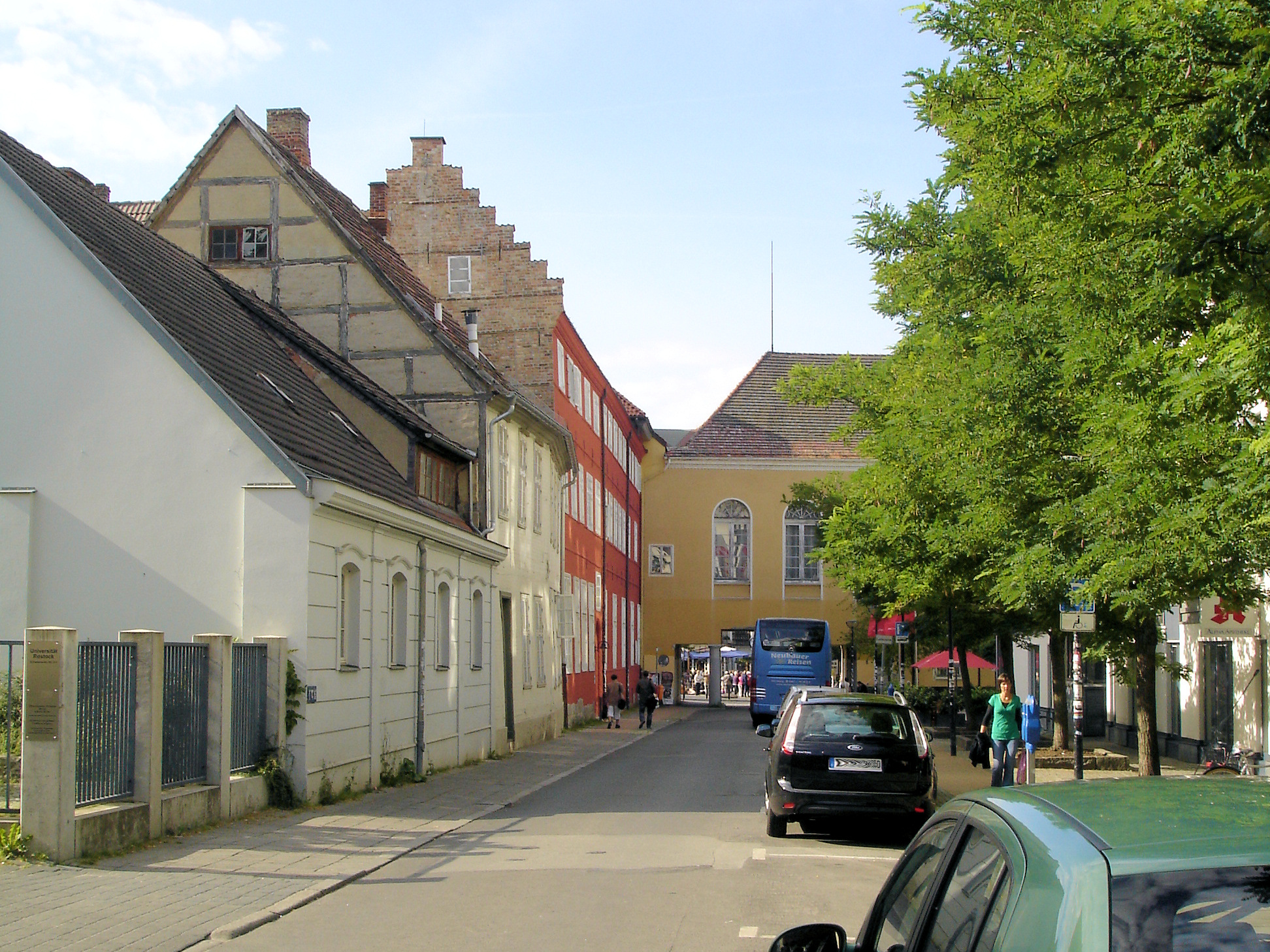 Street in the historic city of Rostock